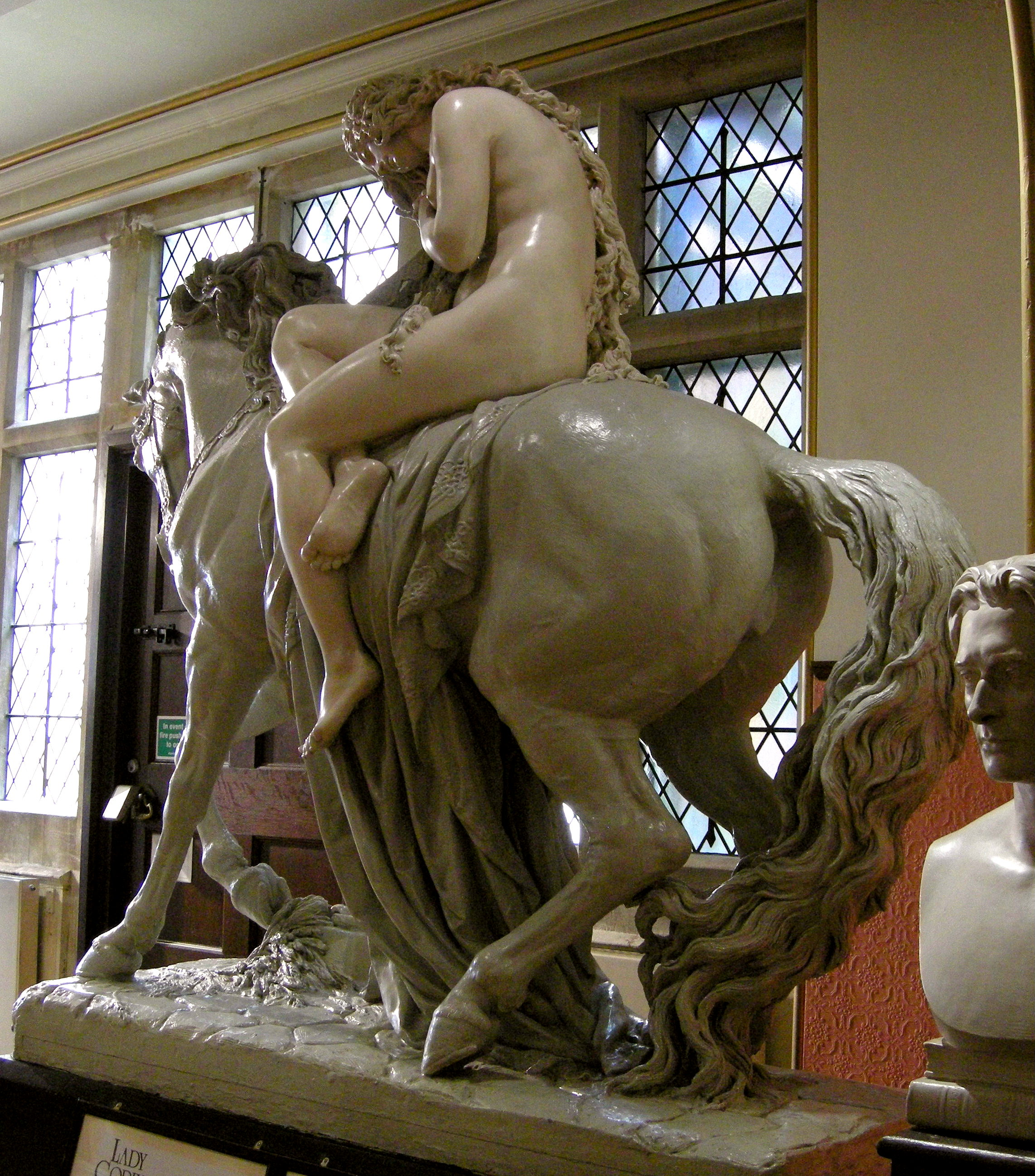 Lady Godiva statue by John Thomas (1813 – 1862), Maidstone Museum, Kent, England.